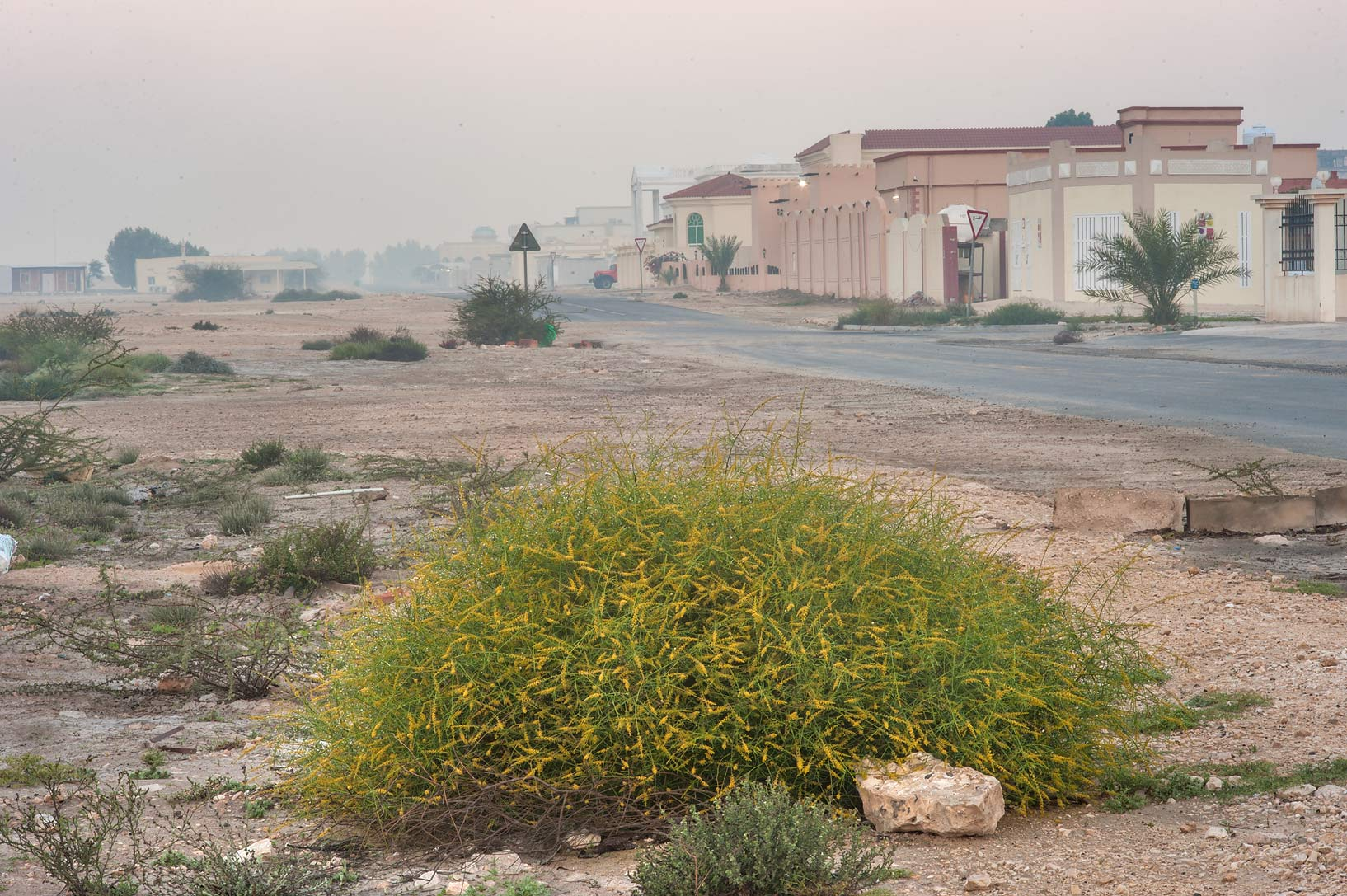 Ochradenus baccatus on roadside of Dukhan Highway near Al Shahaniya, Qatar.